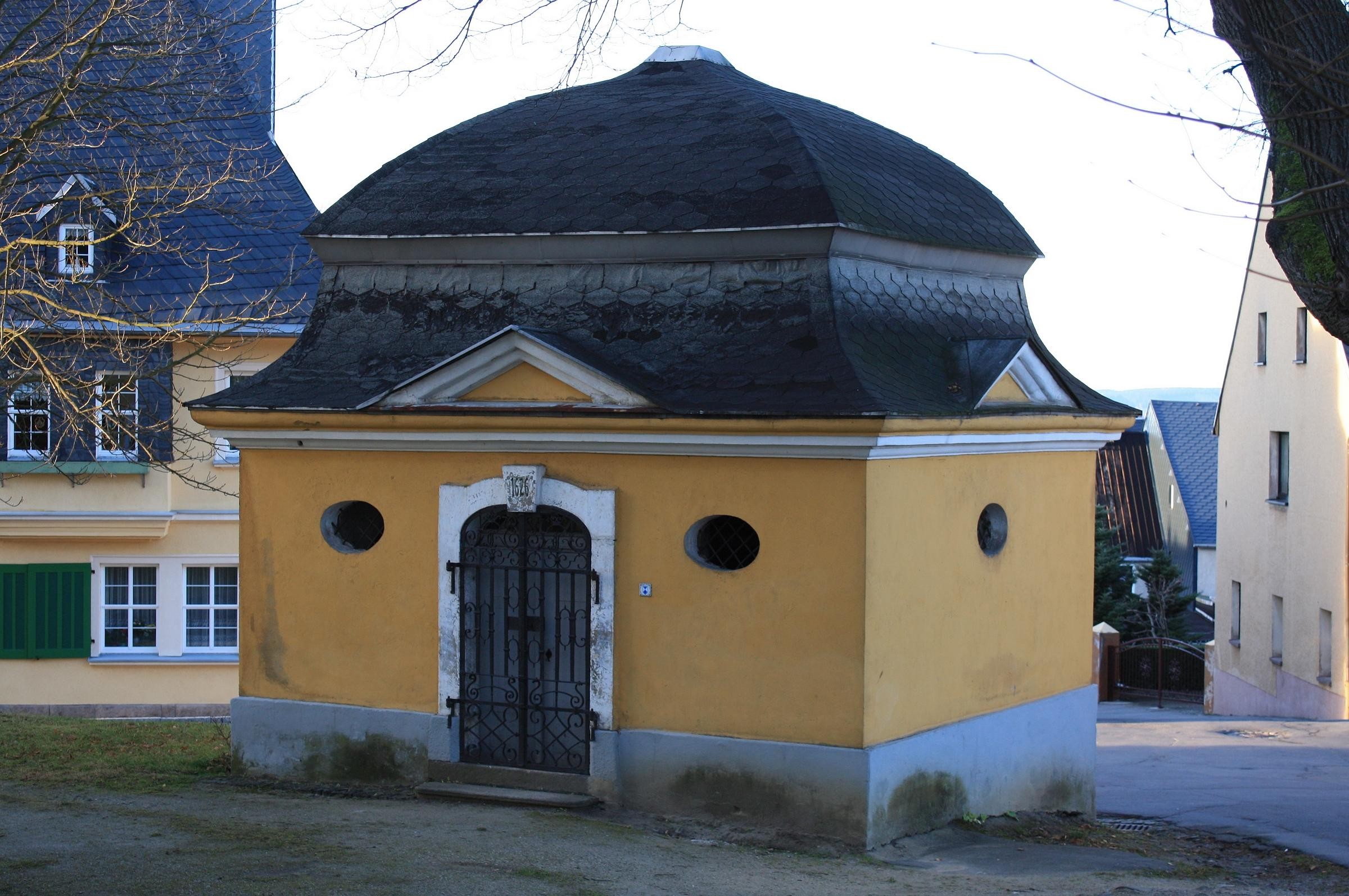 Kellermann family vault in Scheibenberg, Germany.